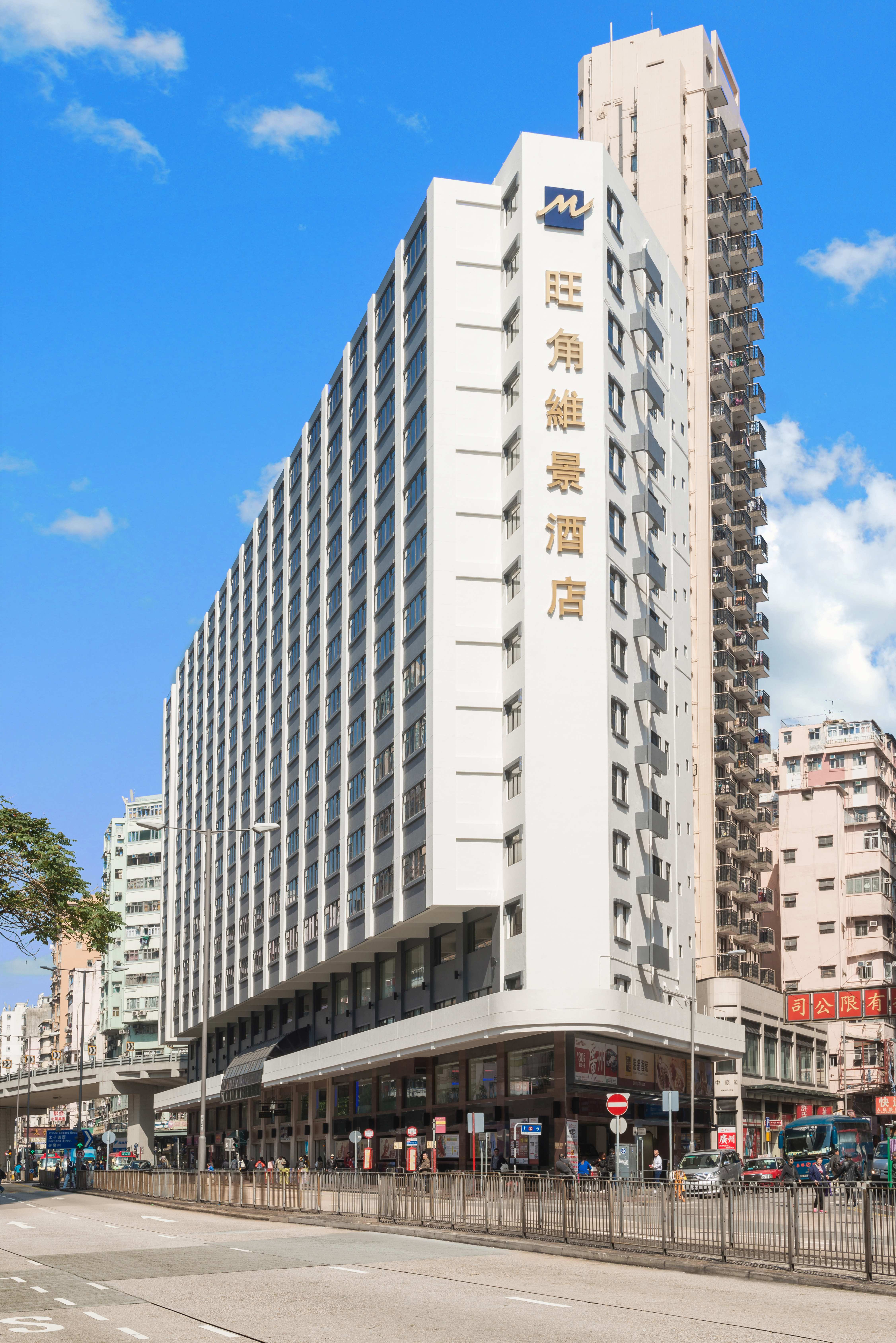 Metropark Hotel Mongkok Exterior